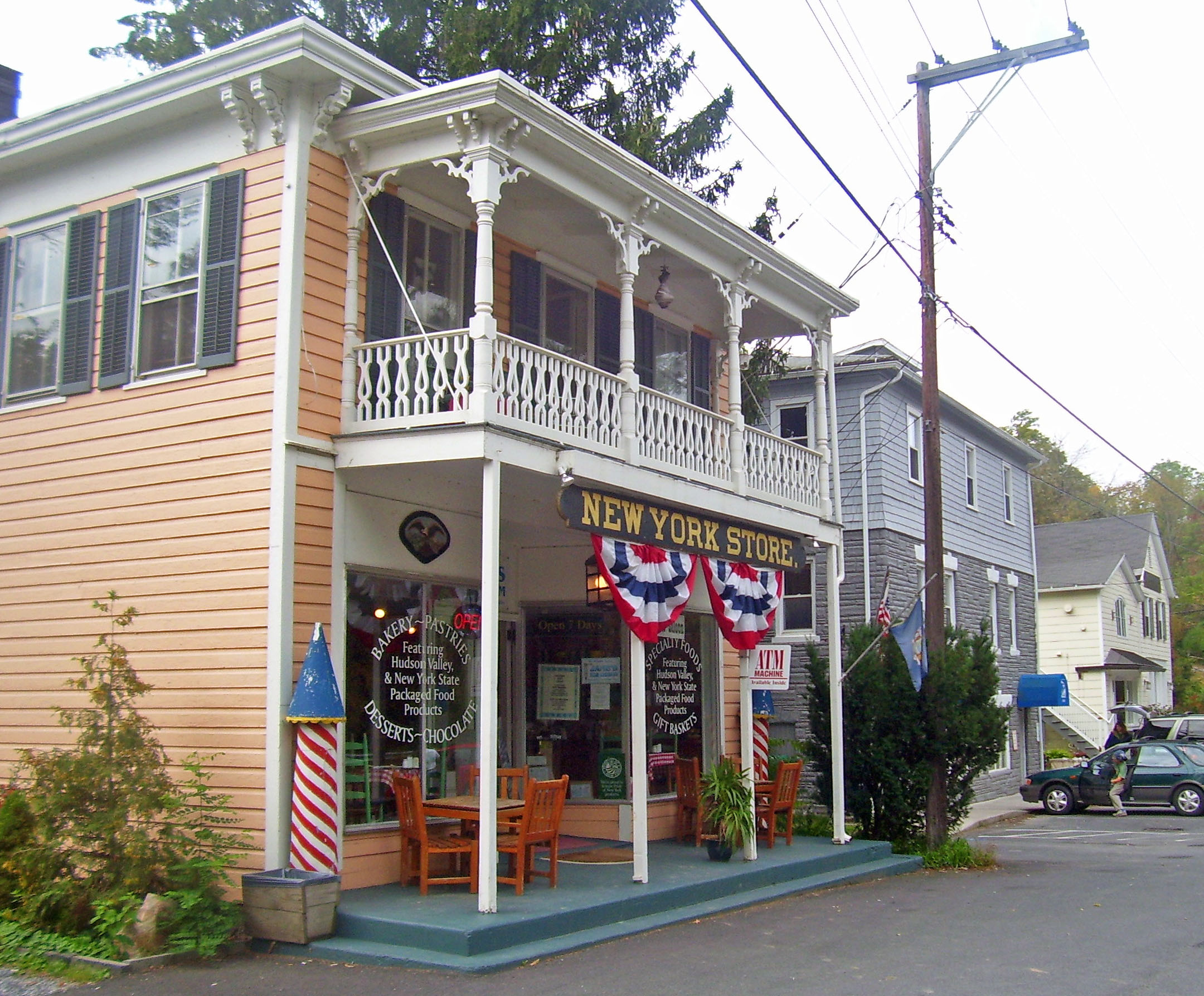 Ca. 1855 Degraff House, 1875 Dutch Reformed Church Parsonage, and ca. 1880 cottage, all contributing properties to the High Falls, NY, USA, High Falls Historic District|historic district